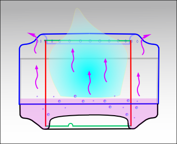 Pepsi can stove preheat 2 Illustrated with Sodipodi for Windows source: me Duk 19:33, 2 Nov 2004 (UTC)